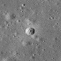 Sharp-Apollo crater (center), Mare Cognitum, on the moon. The crater is approximately 10 m in diameter.